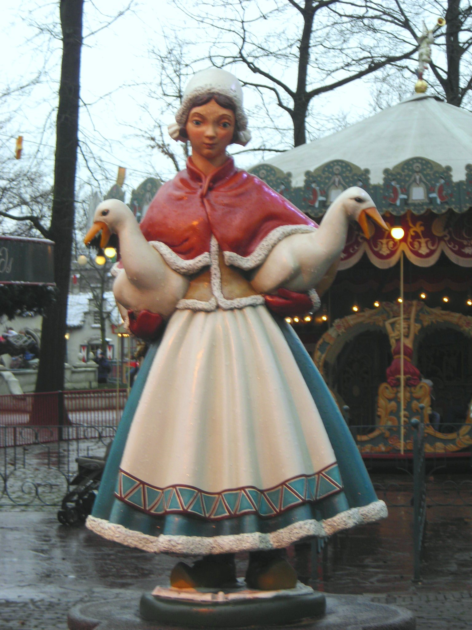 Winter Efteling